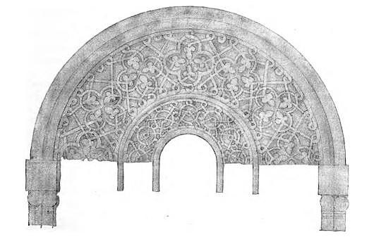 Bedia cathedral. Western facade window jamb